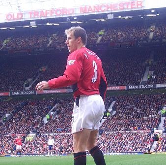 Phil Neville when playing at Manchester United. Photo taken at 20th march 2004 vs. Tottenham (3-0). My own picture from front row.